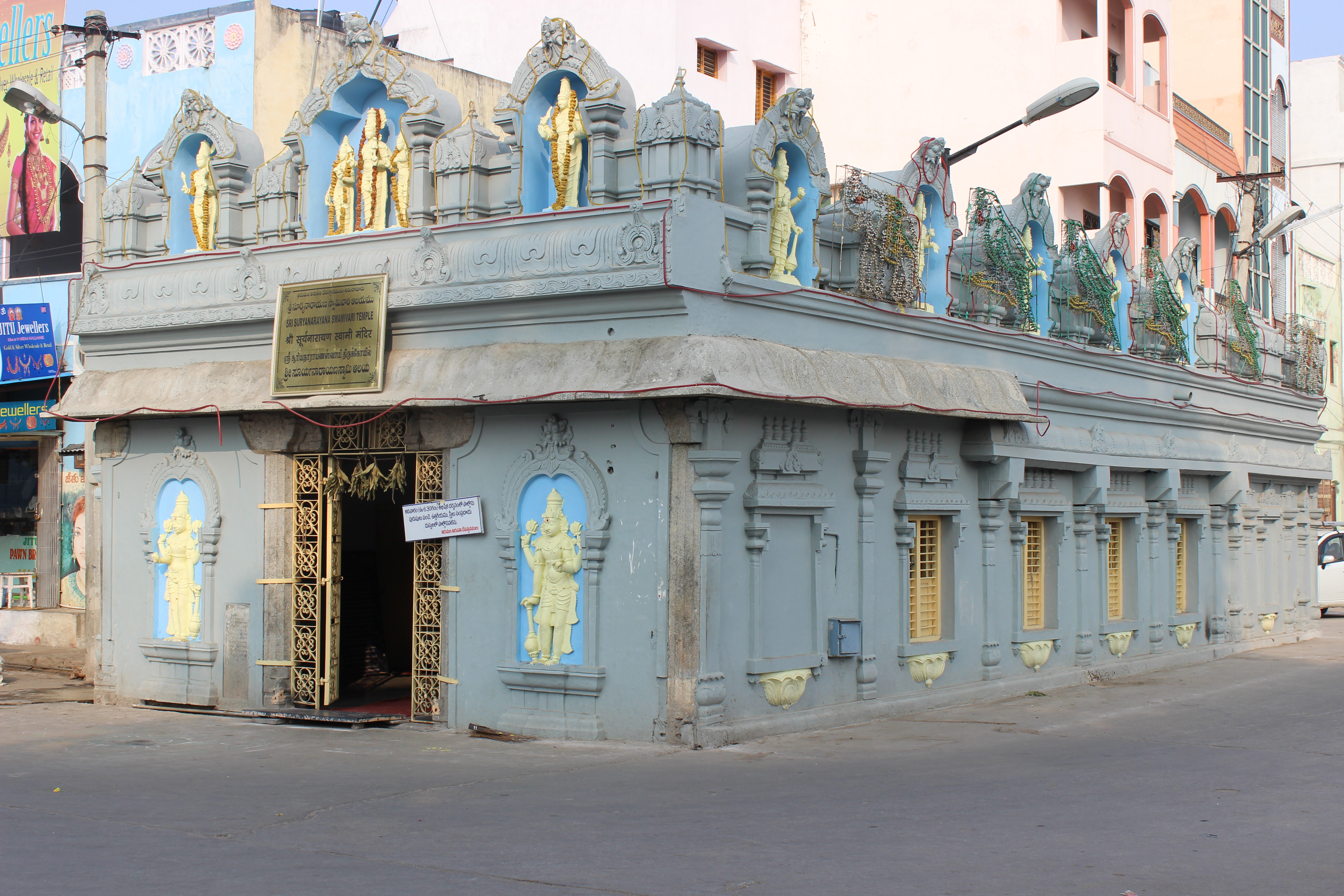 Thiruchanur